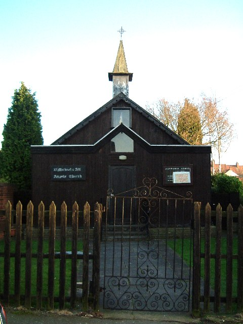 St. Michael & All Angels, Wood End. If St. Michael did turn up with all the angels I doubt they'd fit into this tiny wooden church ! I think it is the fence and gate that are leaning rather than the church.